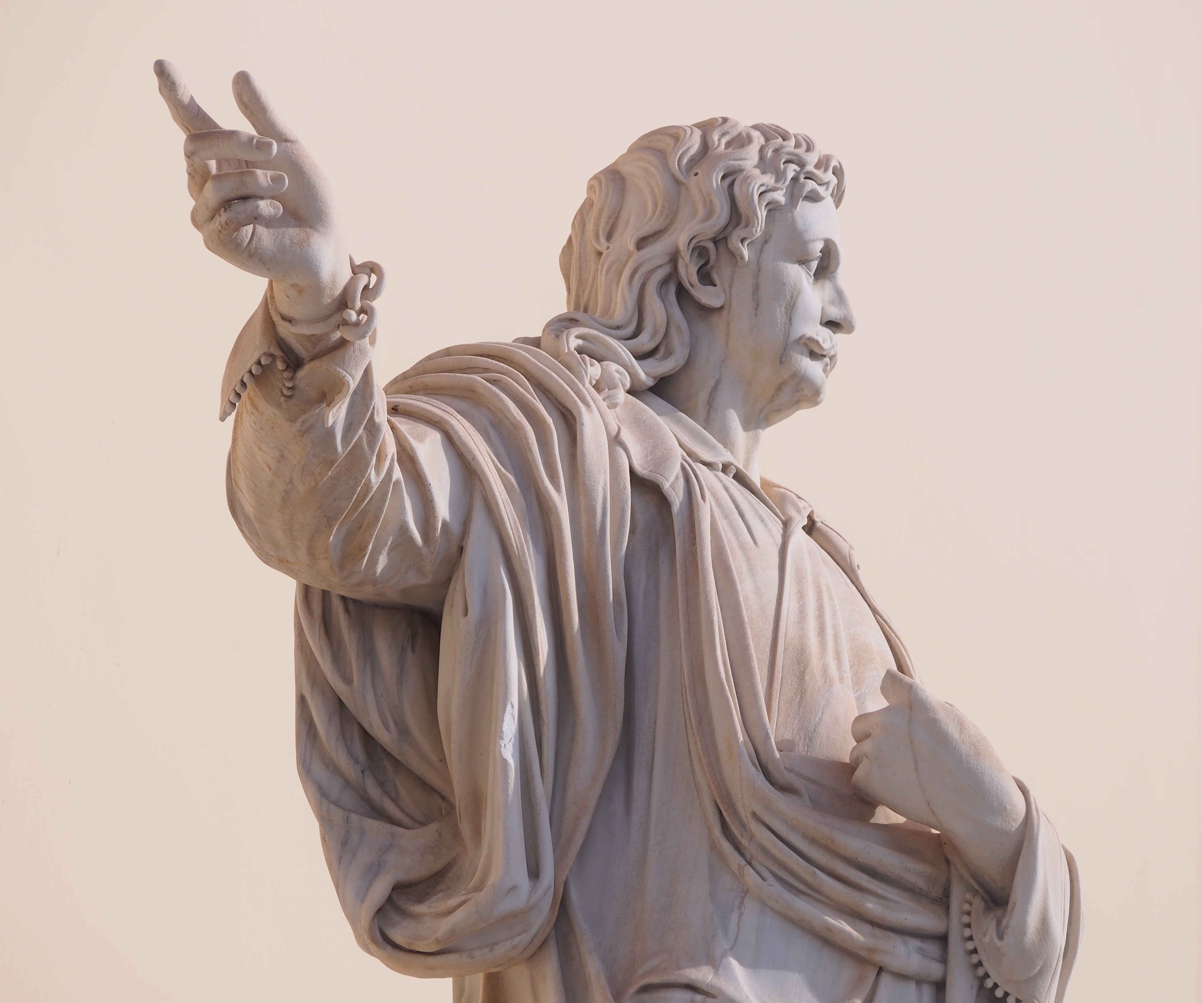 The statue of Rigas Feraios in front of the University of Athens.